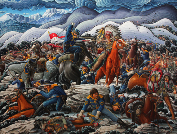 Study of the Fetterman Massacre by artist Kim Douglas Wiggins